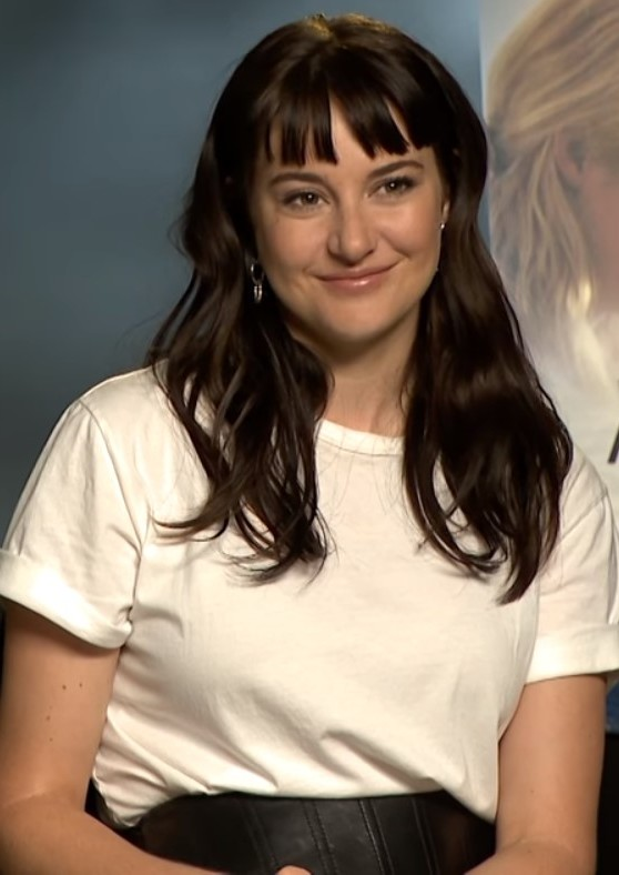 Stars of new ocean survival drama Adrift, Sam Claflin and Shailene Woodley, sit down with MTV to reveal their hilarious (and totally gross) fave memories of each other, and the deleted scenes you WON’T see in cinemas. WARNING: Don’t watch while eating.